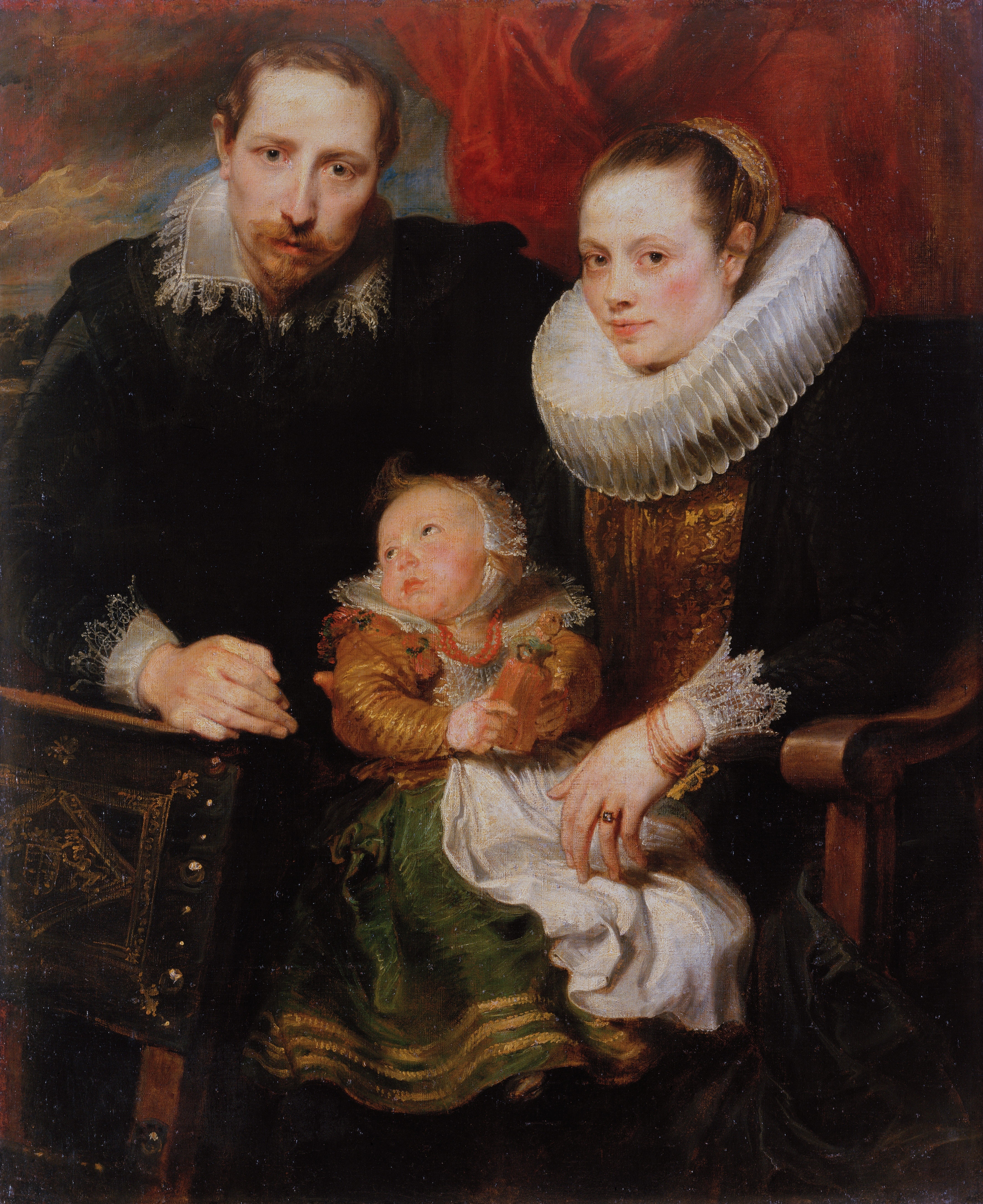 Family portrait